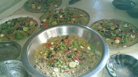 Considered as the national dish, the tiep is at the basis of food consumption in Senegal. Often made with fish this one is made with beef, with rice and vegetables.